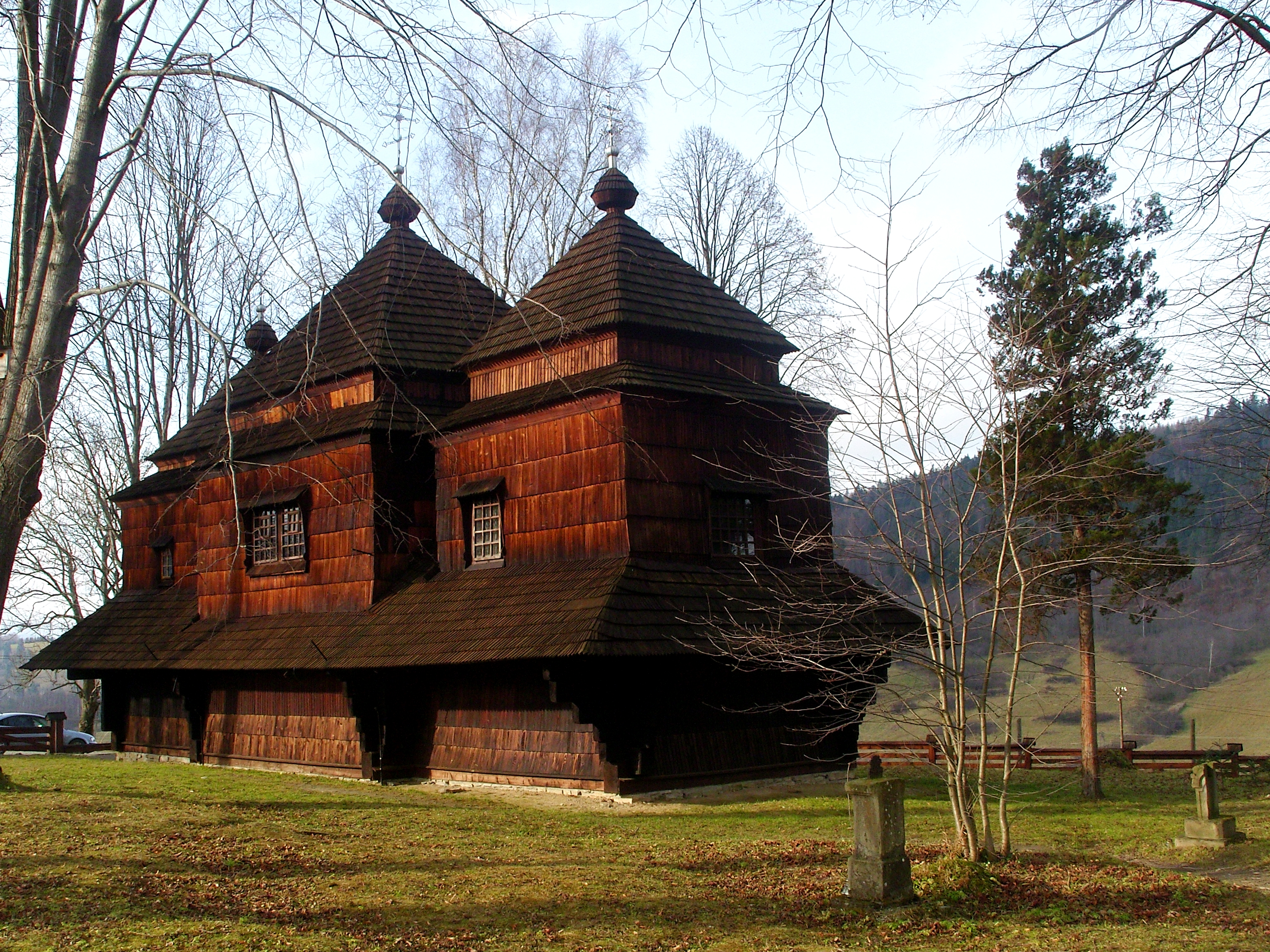 Wooden church Smolnik (Mountain Bieszczady) Poland